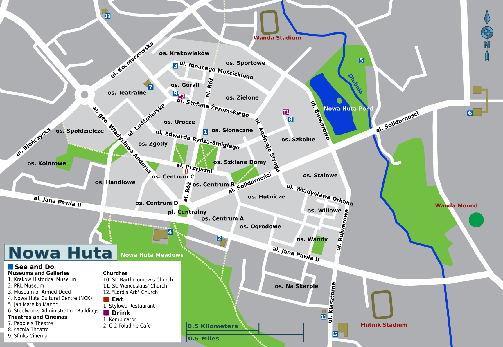 Krakow.